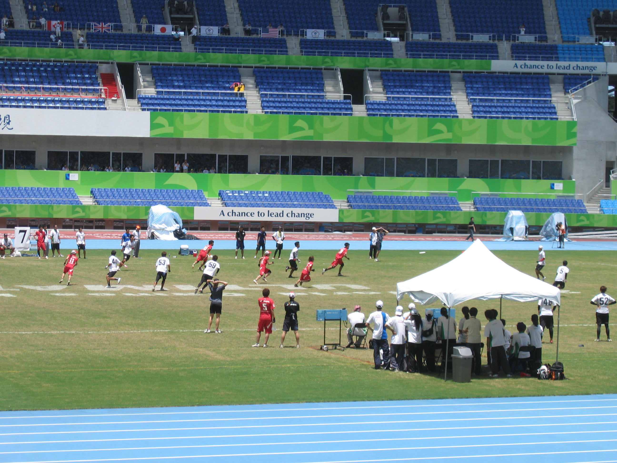 Canada vs. Great Britain